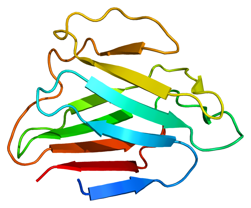 Structure of the LMNA protein. Based on PyMOL rendering of PDB 1ifr.